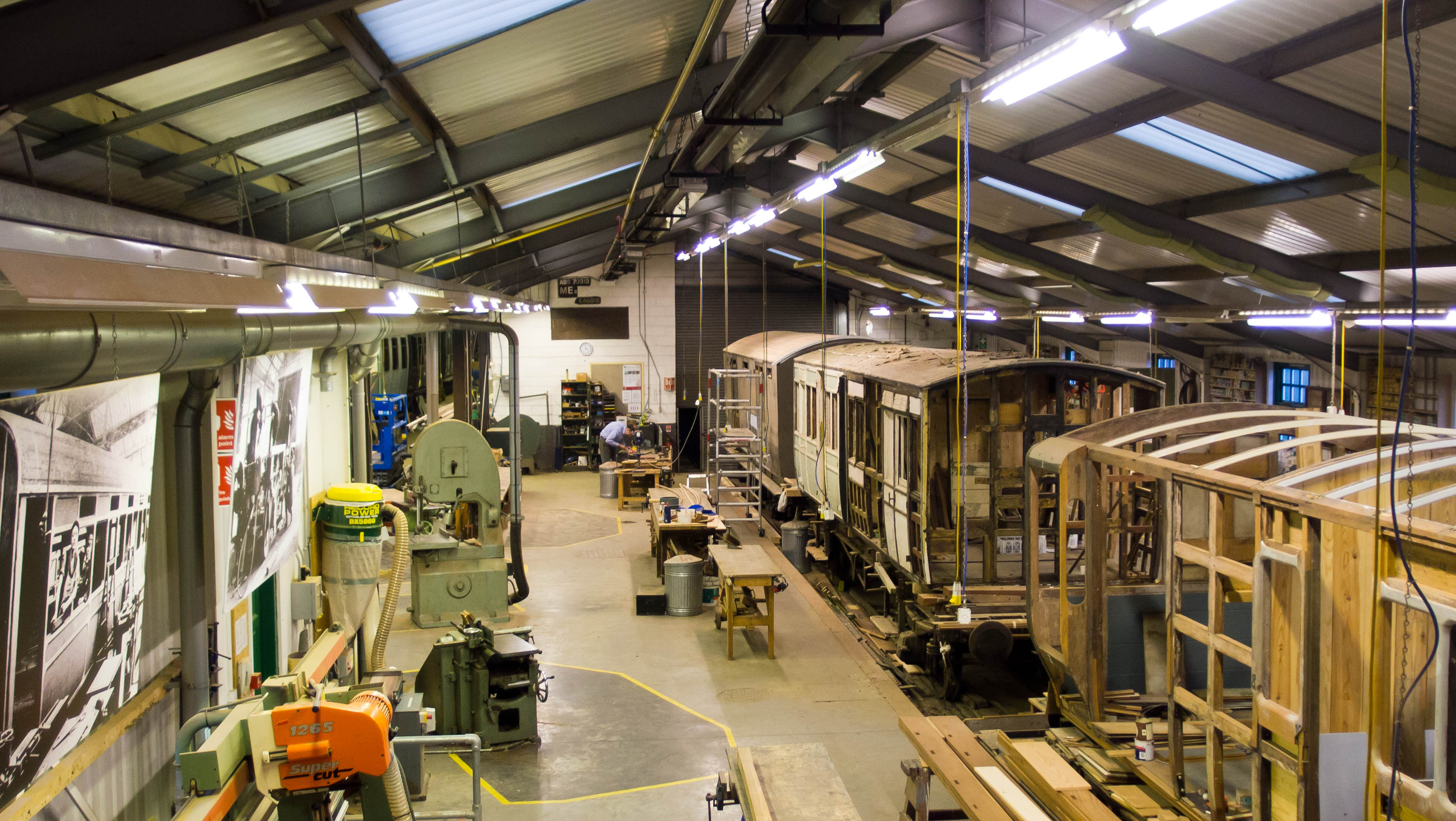 Bluebell Railway - Carriage workshop